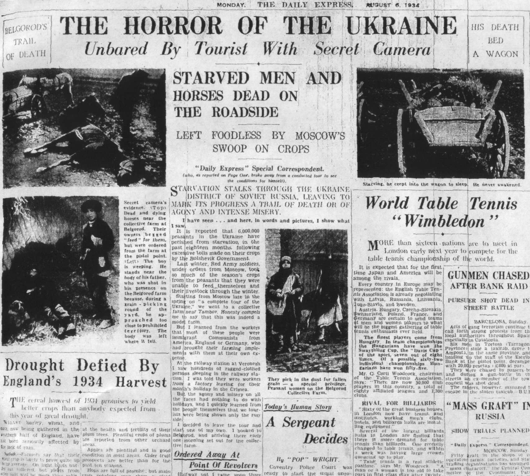 Daily Express pictures on Holodomor genocide by forced starvation of six million Ukrainian peasants